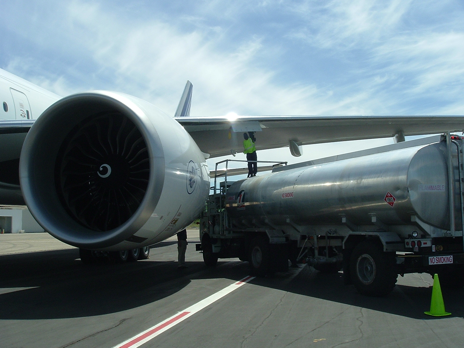 The engines can only be air-freighted in assembled form by cargo aircraft such as the Antonov An-124, presenting unique problems if due to emergency diversions, a 777 was stranded in a place without the proper spare parts.